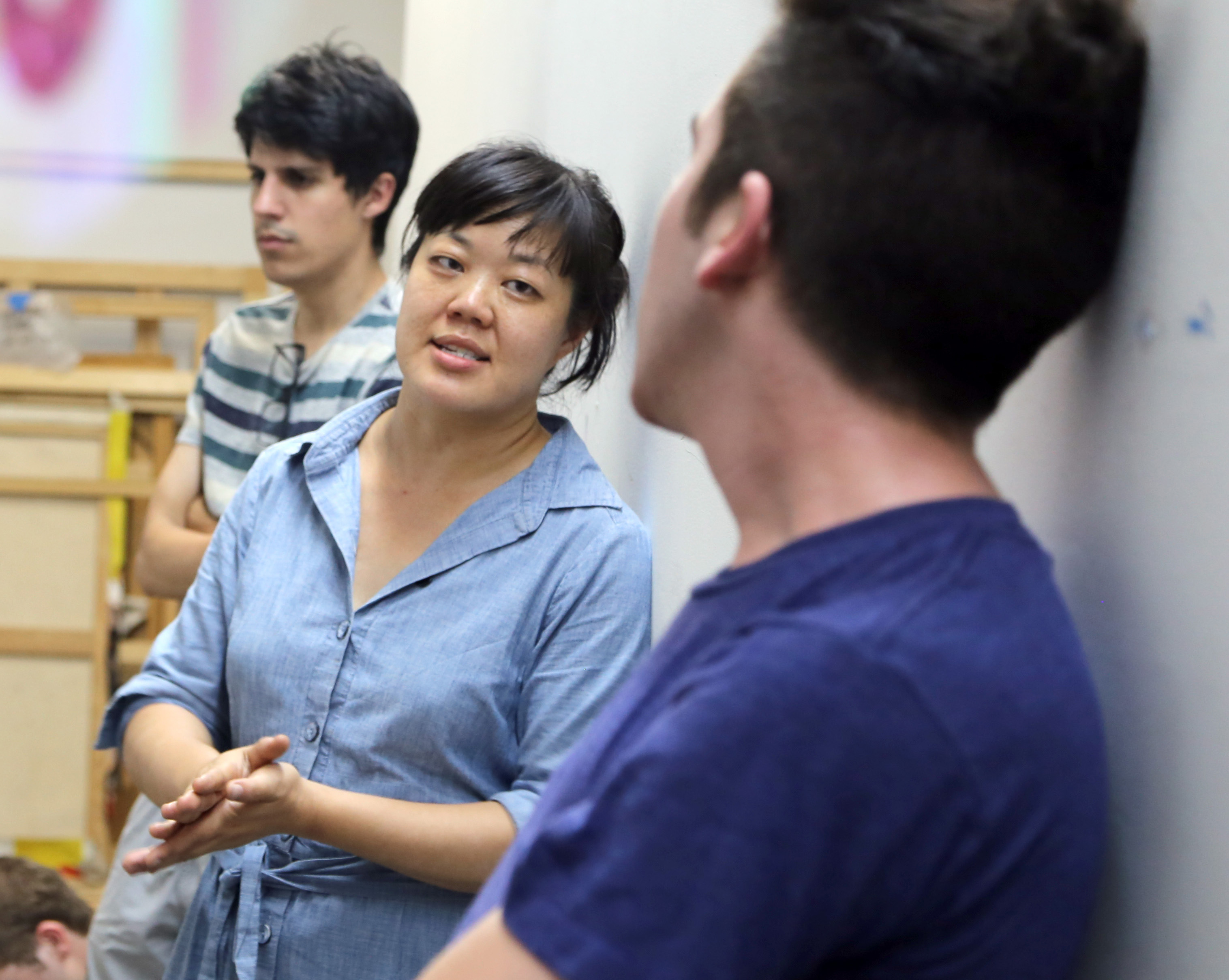 Jen Liu talks about her current project, and leads a New York Arts Practicum critique at her studio in Bushwick